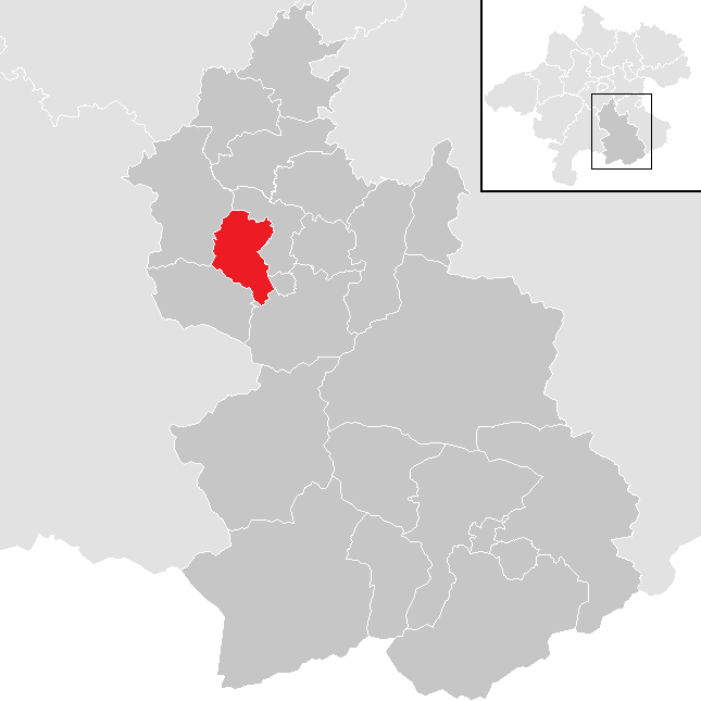 district Kirchdorf an der Krems